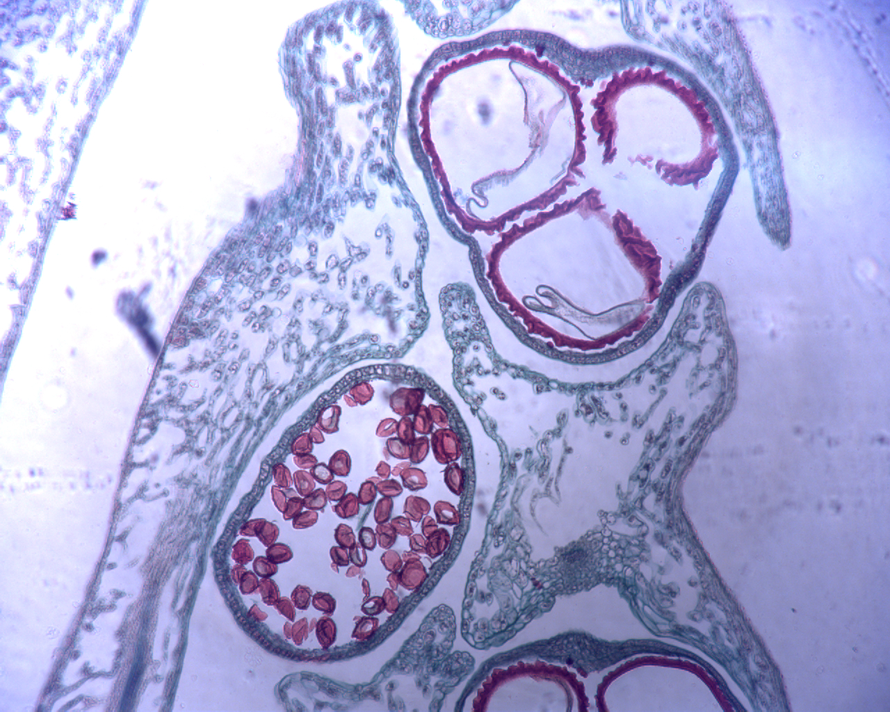 100x magnification of prepared slide of the strobius of Selaginella. Microspores are the smaller red cells on the bottom half, the macrospores are the large red discs in the upper half and slightly cut off at the very bottom. The green sac around the spores is the sporangium.